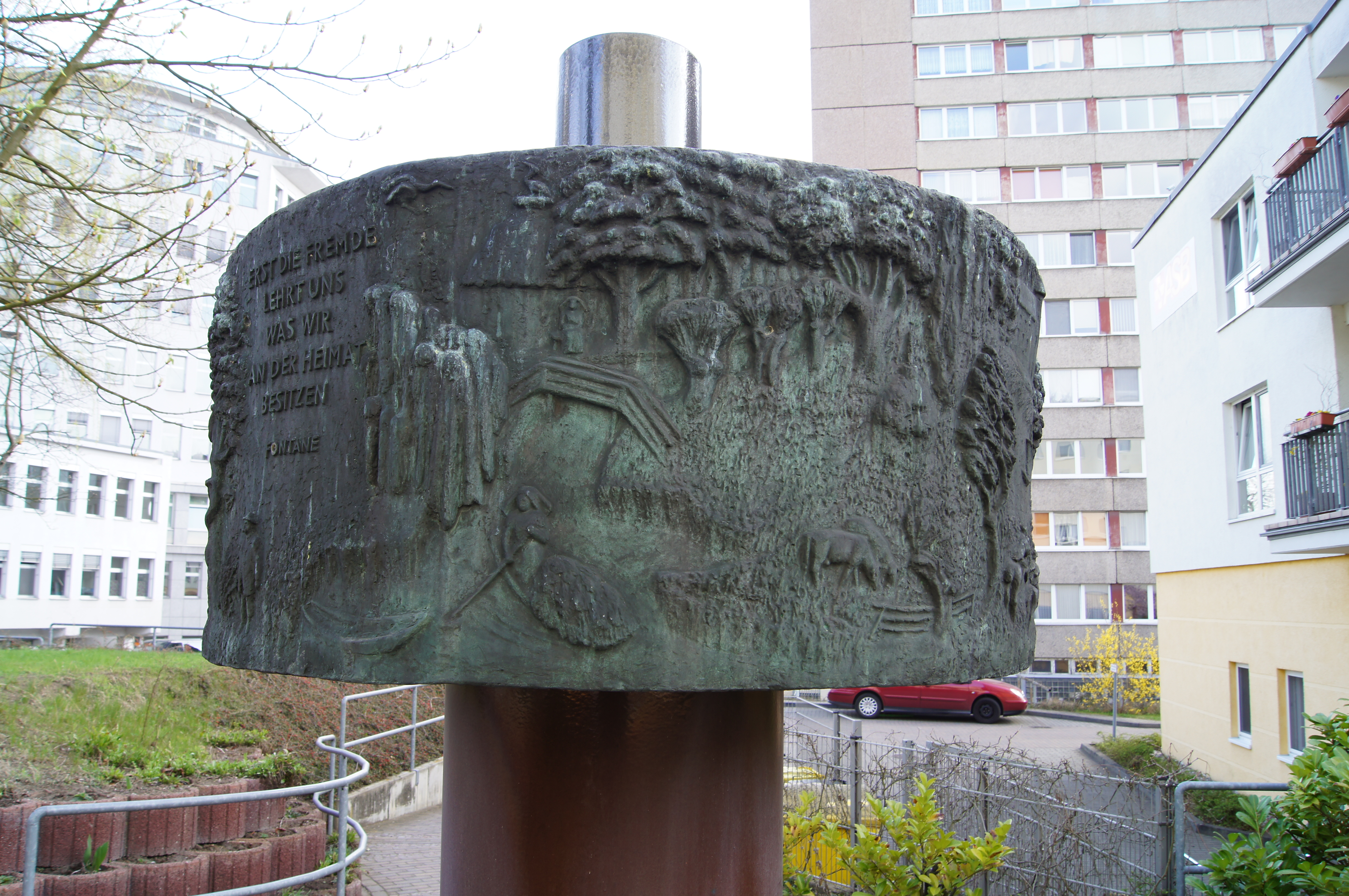 Fontane Fountain by Hans Henning and Manfred Wenck (1984) in Frankfurt (Oder), Brandenburg, Germany